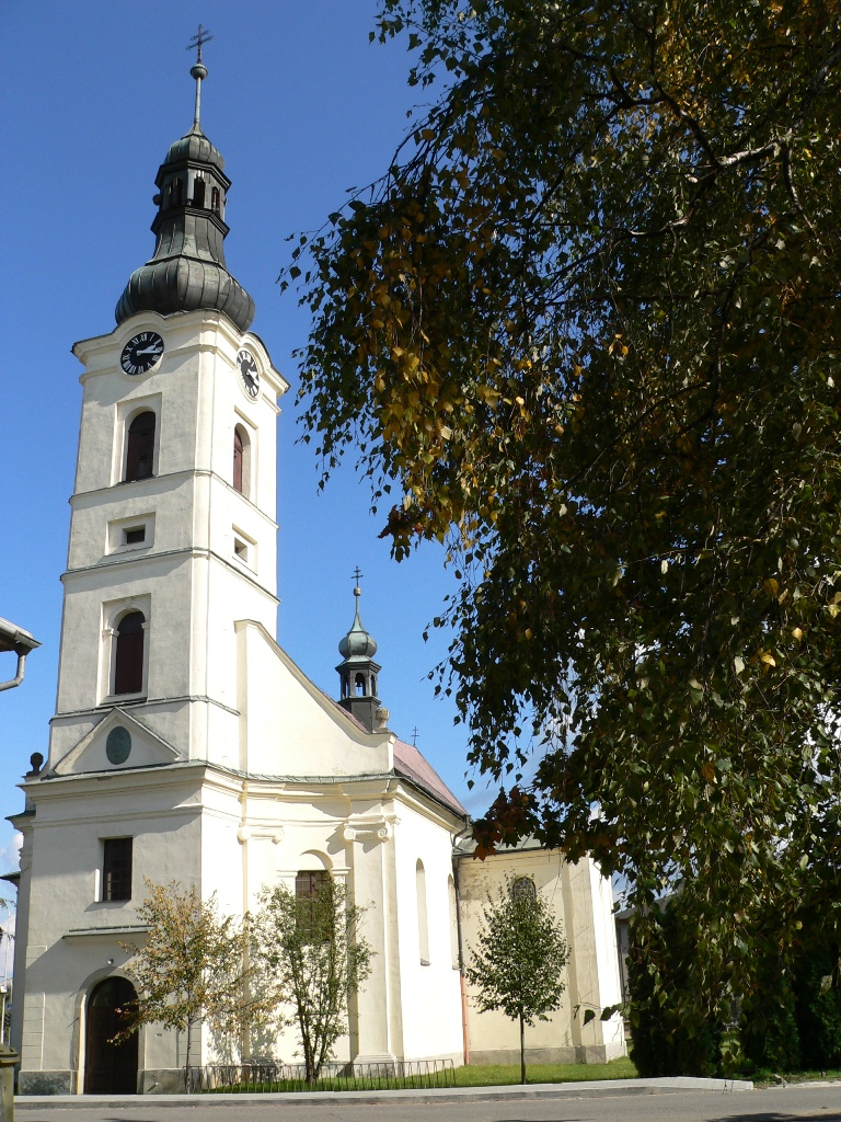 Description: Saint George Church in Dobrá near Frýdek-Místek, Czech Republic. Date: 30 September 2007 Camera: Panasonic DMC-FZ20 Author: Czesil (my friend)